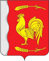 Coat of arms of Ajtarskoye municipality, Primorsko-Ajtarski Raion, Krasnodar Krai, Russia.